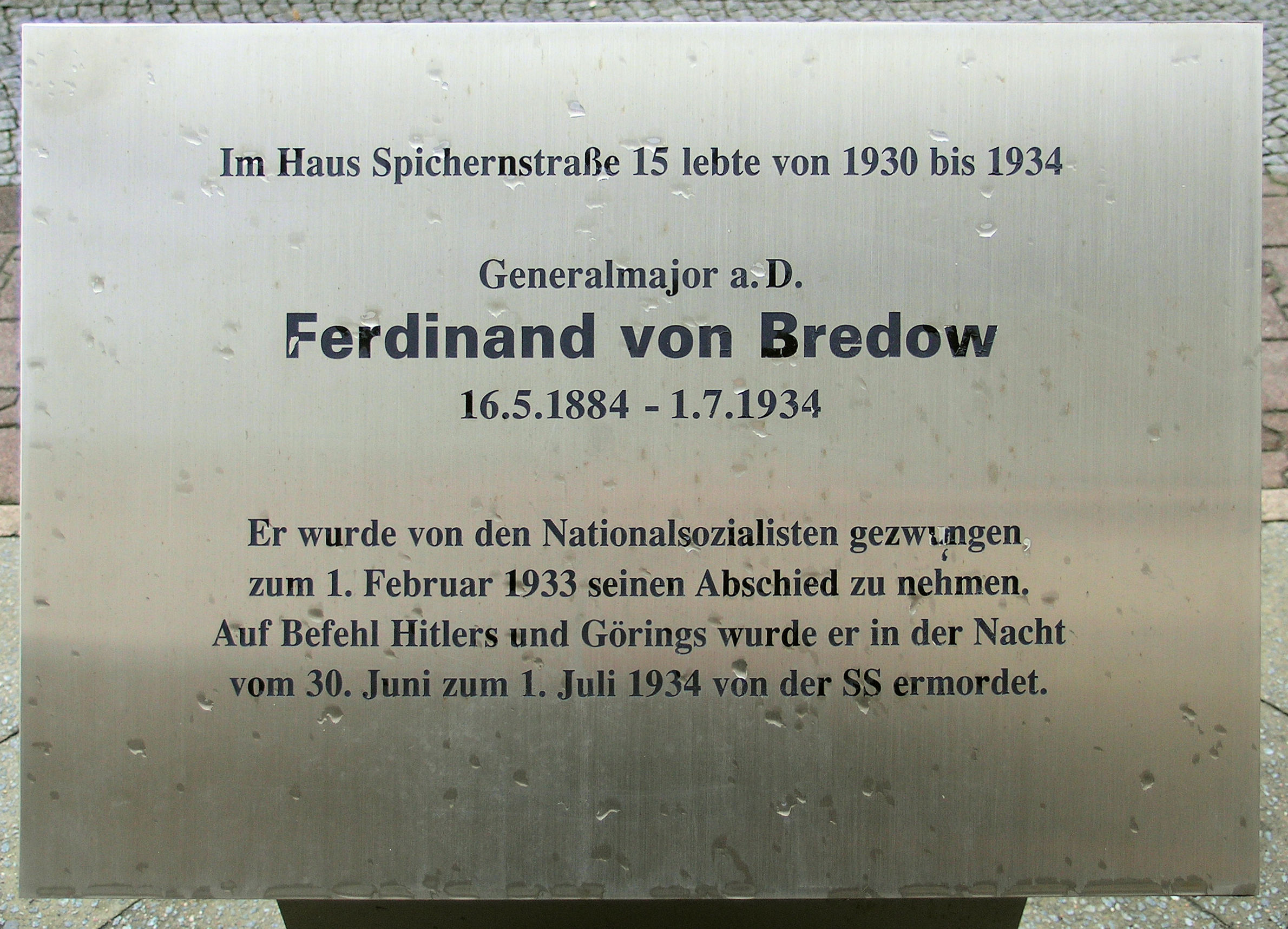 Memorial plaque, Ferdinand von Bredow, Spichernstraße 15, Berlin-Wilmersdorf, Germany Koordinate:52°29′48″N 13°19′54″E / 52.49667°N 13.33167°E